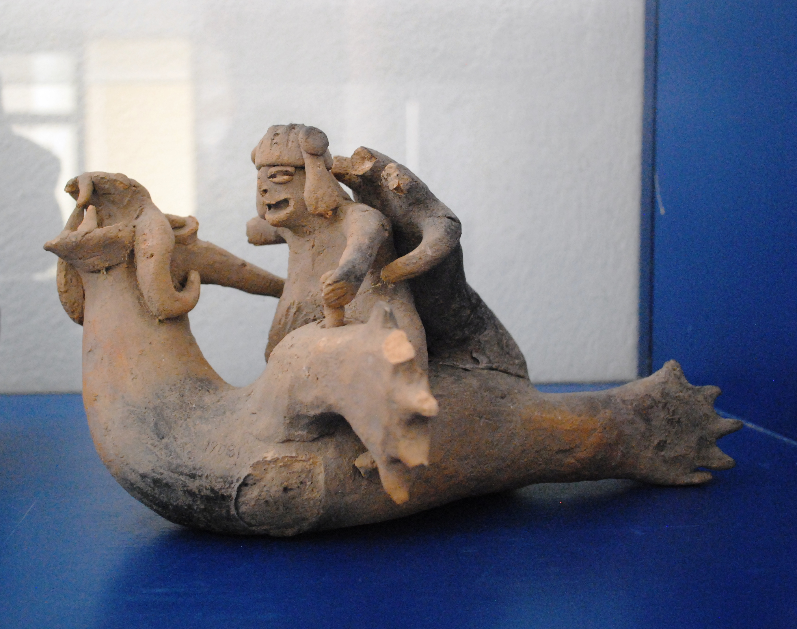 Muzeo Julsrud